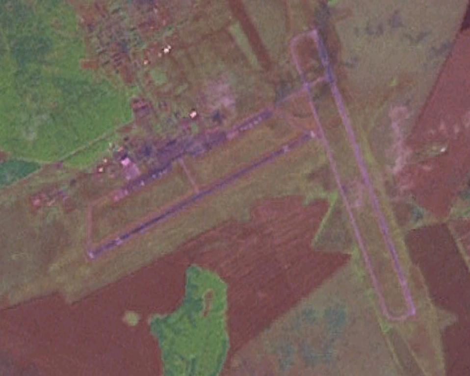 Samara/Kurumoch airfield, former Soviet Union. Image from NASA World Wind.